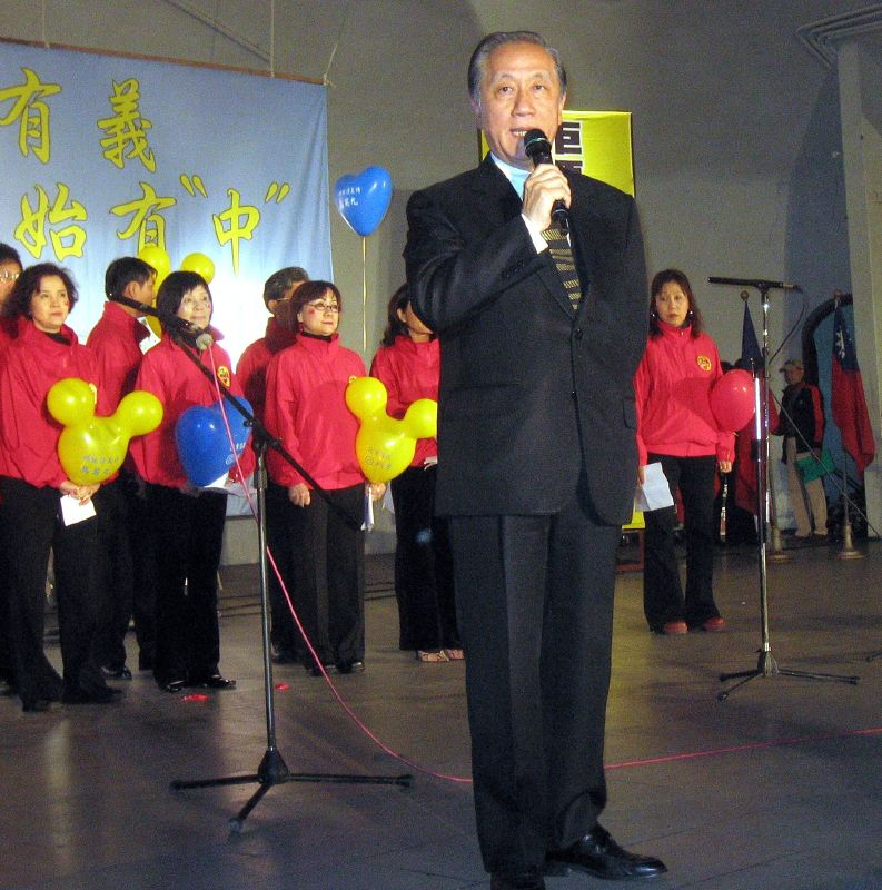 New Party Chairman Yok Mu-ming 郁慕明 Yu Muming addresses the crowd.